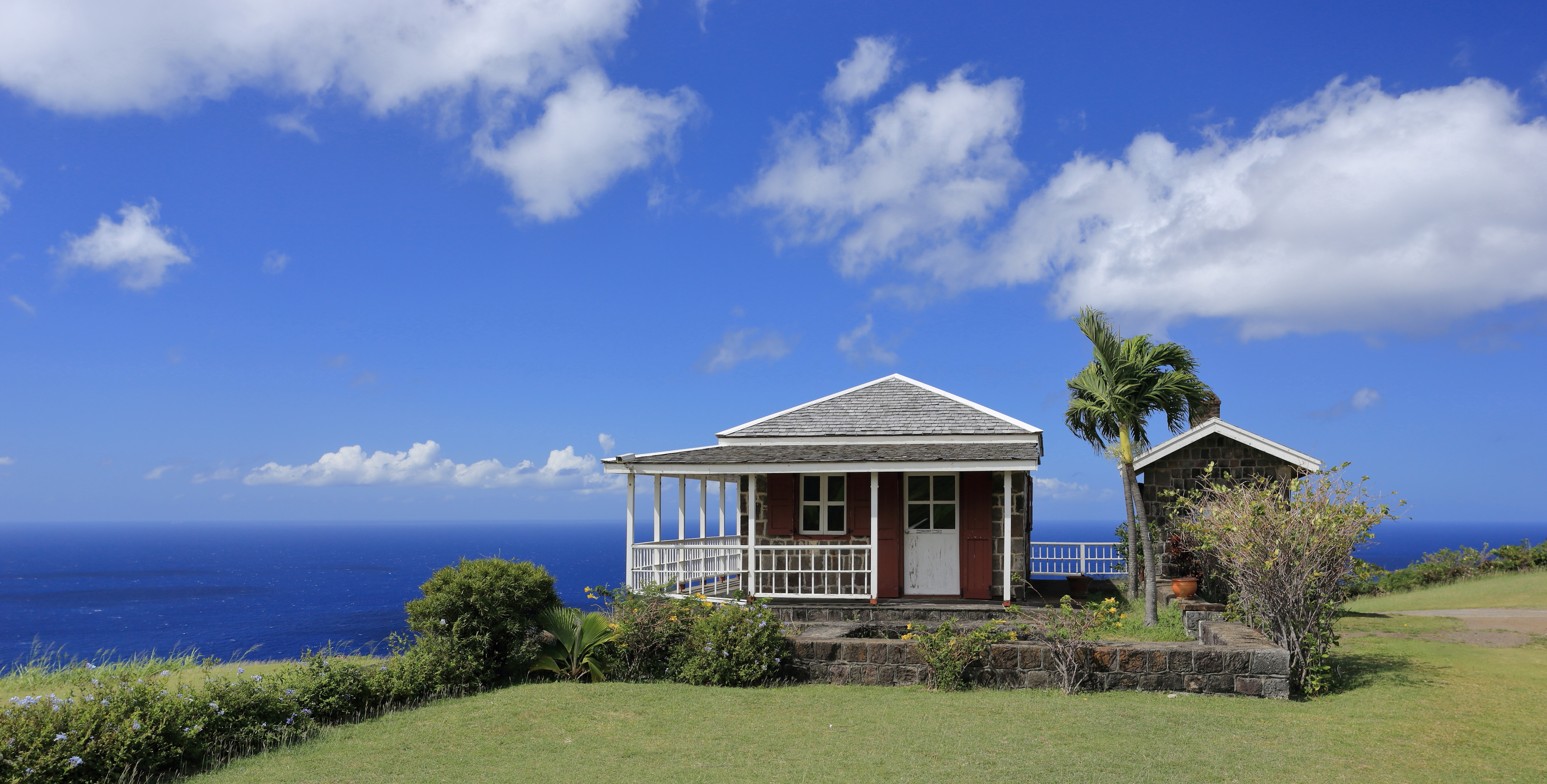 Brimstone Hill Fortress, UNESCO World Heritage Site Ref. Number 910, March 2016. Detail of the Orientation Center.